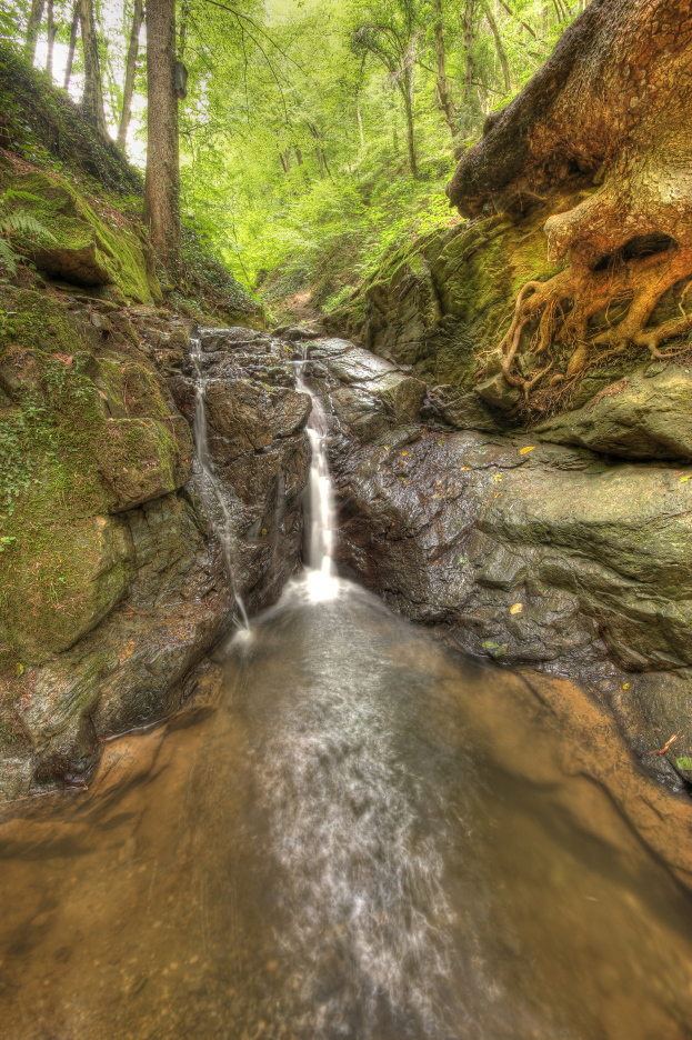 rettenbachklamm